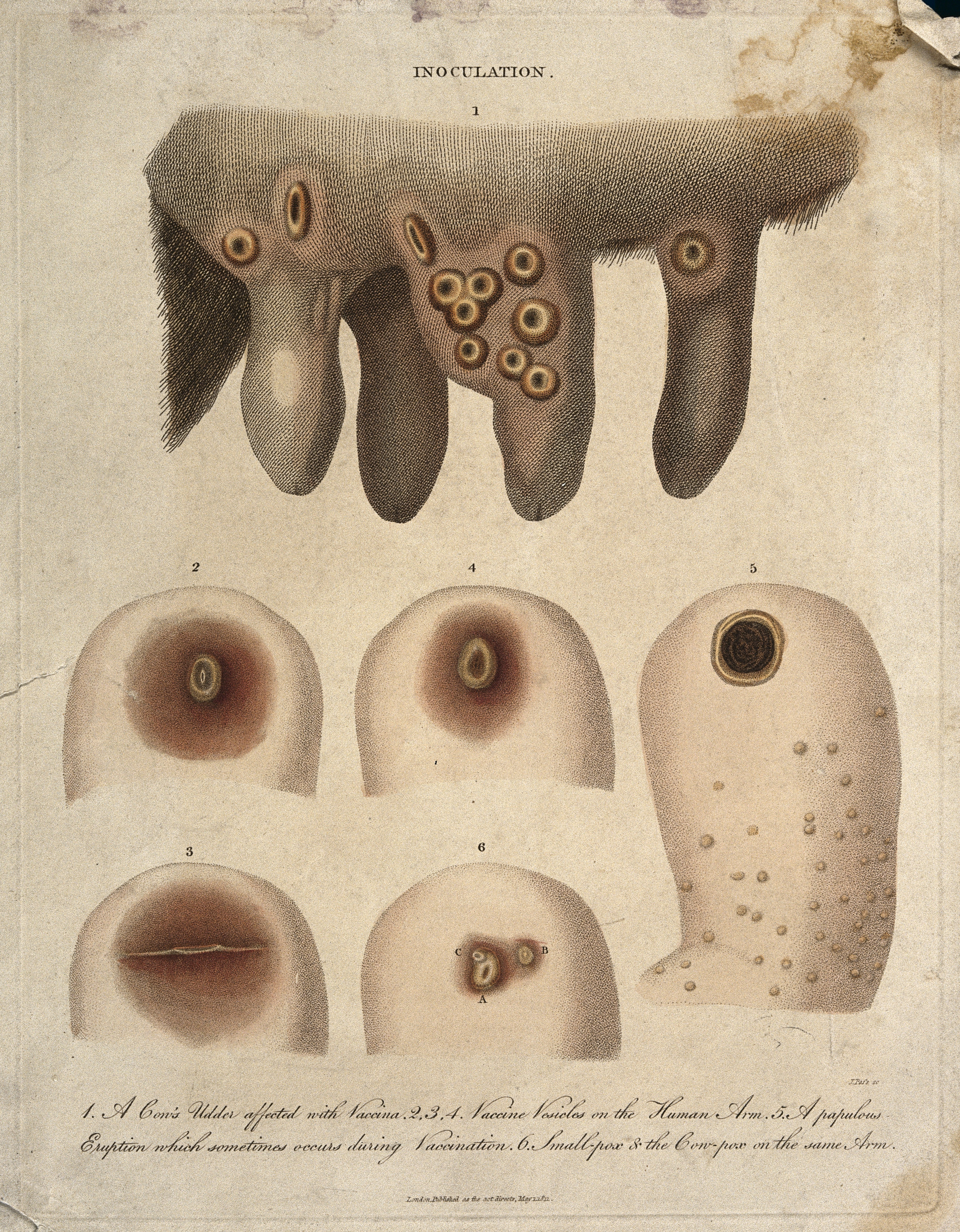 A cow's udder with vaccinia pustules and human arms exhibiting both smallpox and cowpox pustules. Coloured engraving by J. Pass, 1811. Iconographic Collections Keywords: Cowpox; Vaccination; J. Pass; Disease; Smallpox